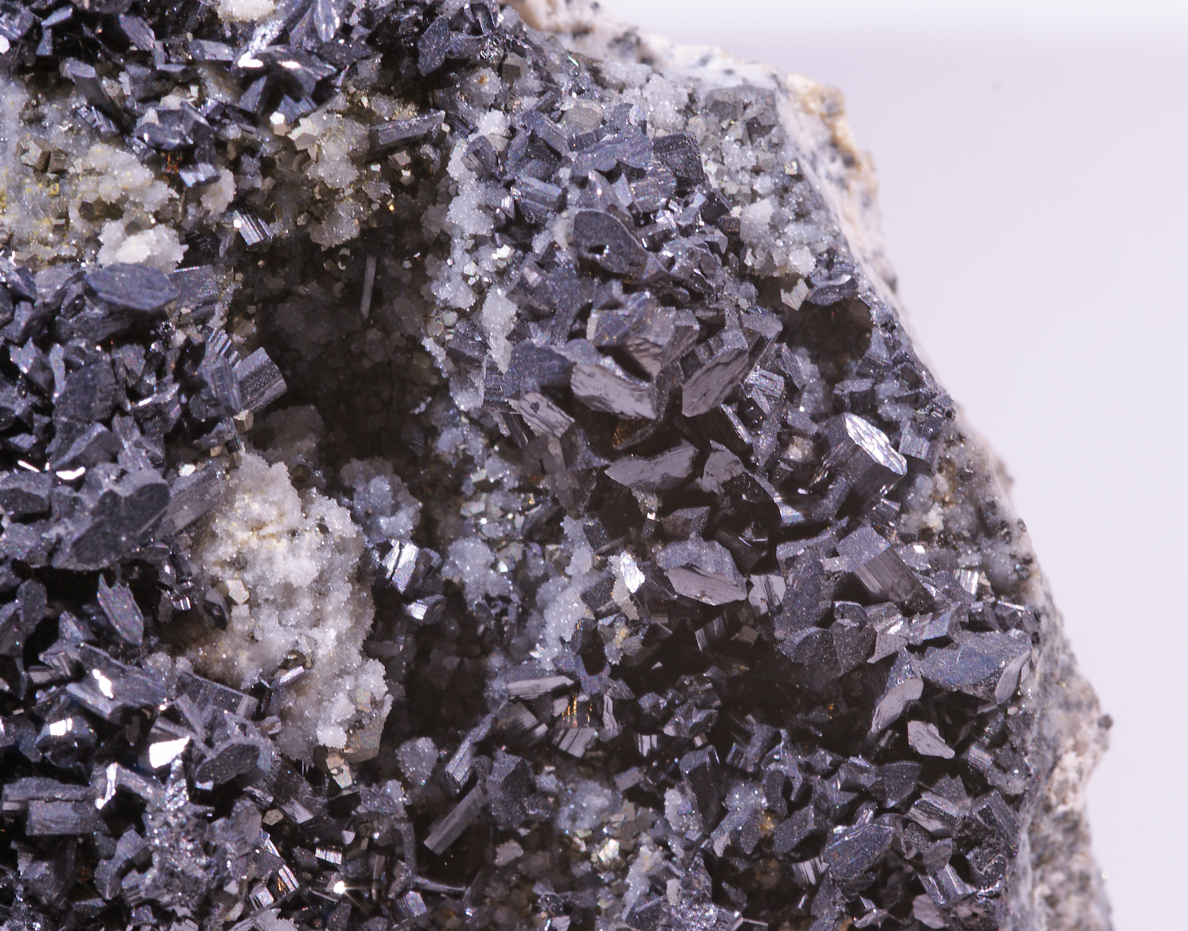 Enargite Huaron Mining District Peru